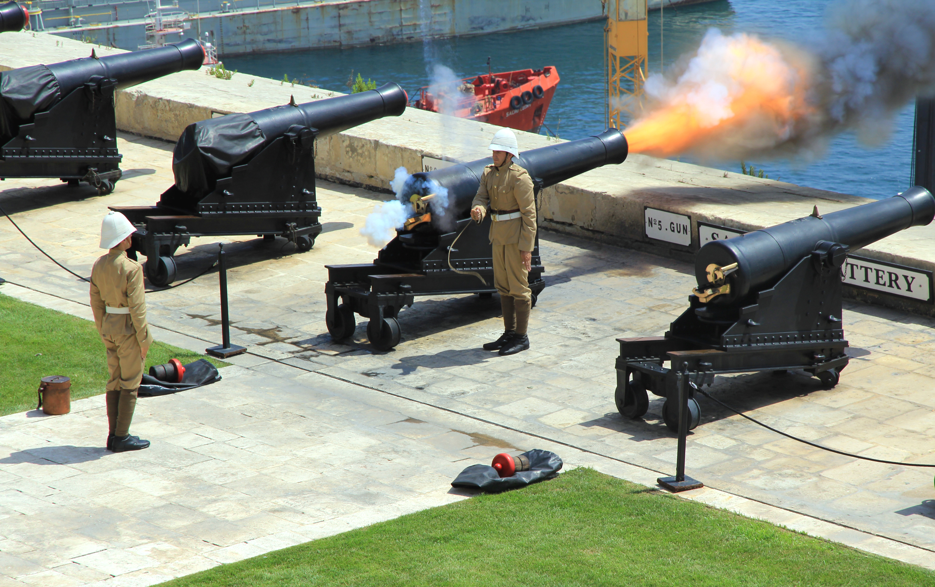 View from Upper Barrakka Gardens on the gunshot repoting noon time by the Saluting Battery in Valletta, Malta